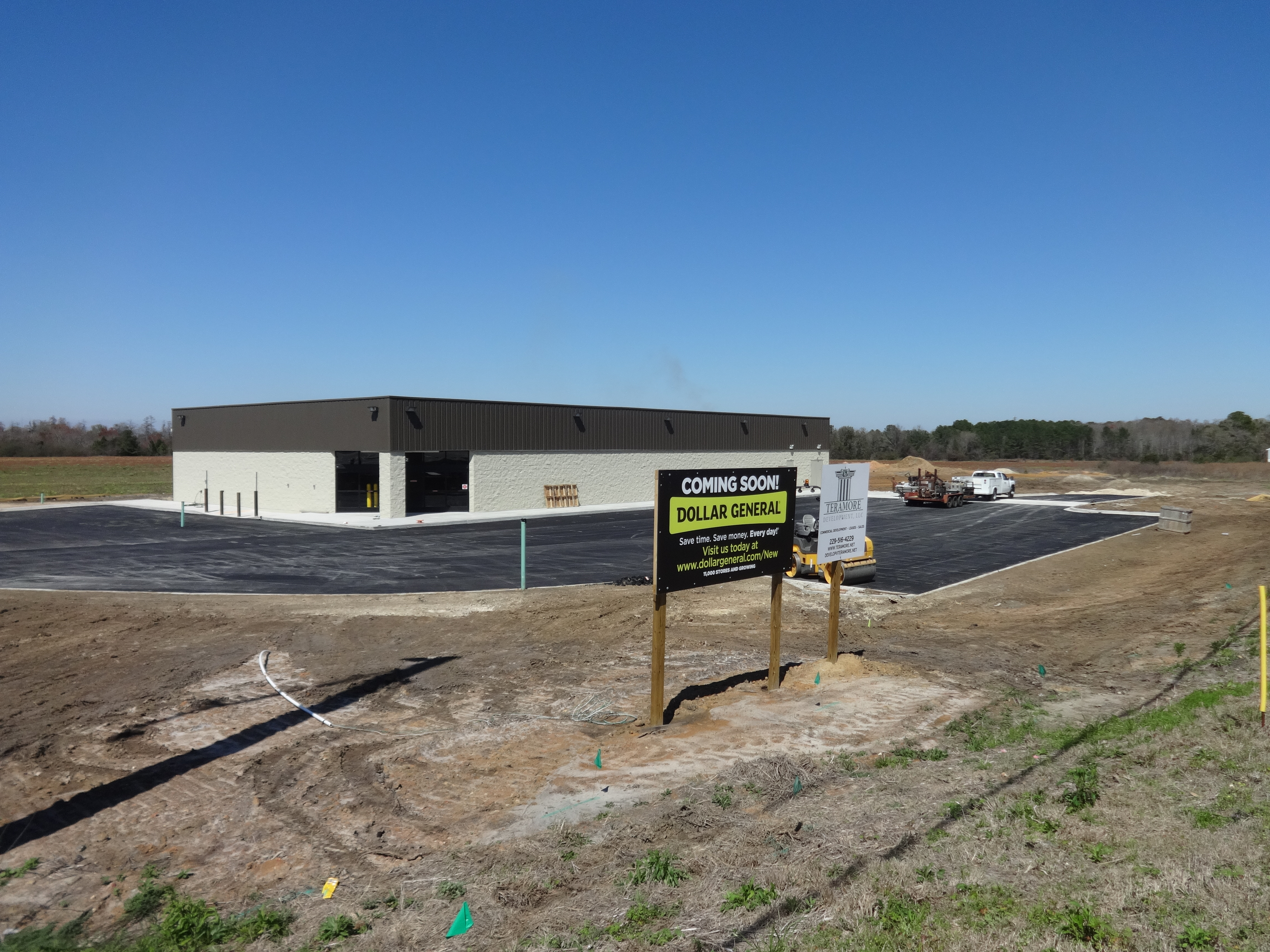 Dollar General, Davidson Rd, GA125, Lowndes County, Georgia